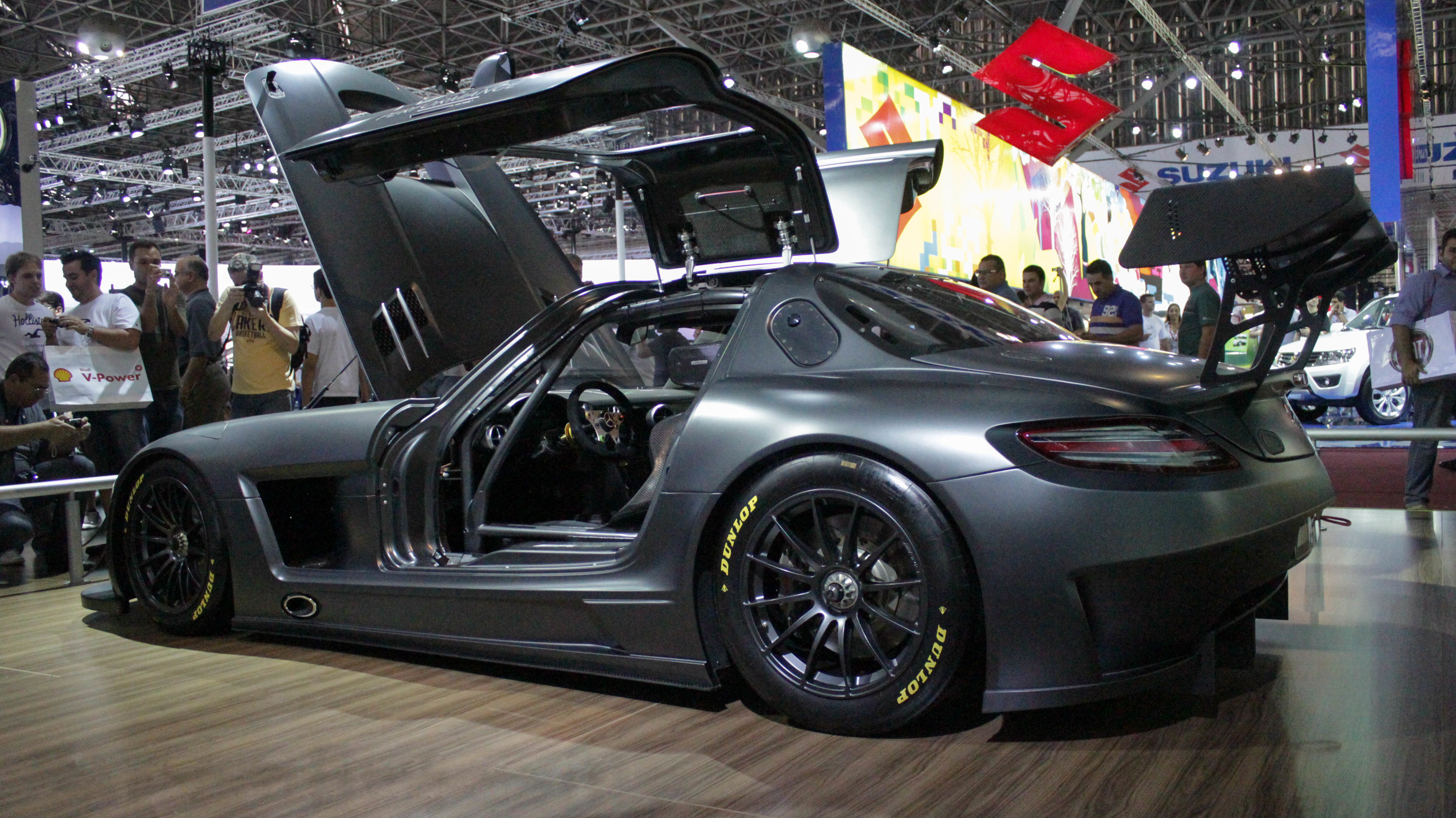 Mercedes SLS AMG GT3 45th Anniversary